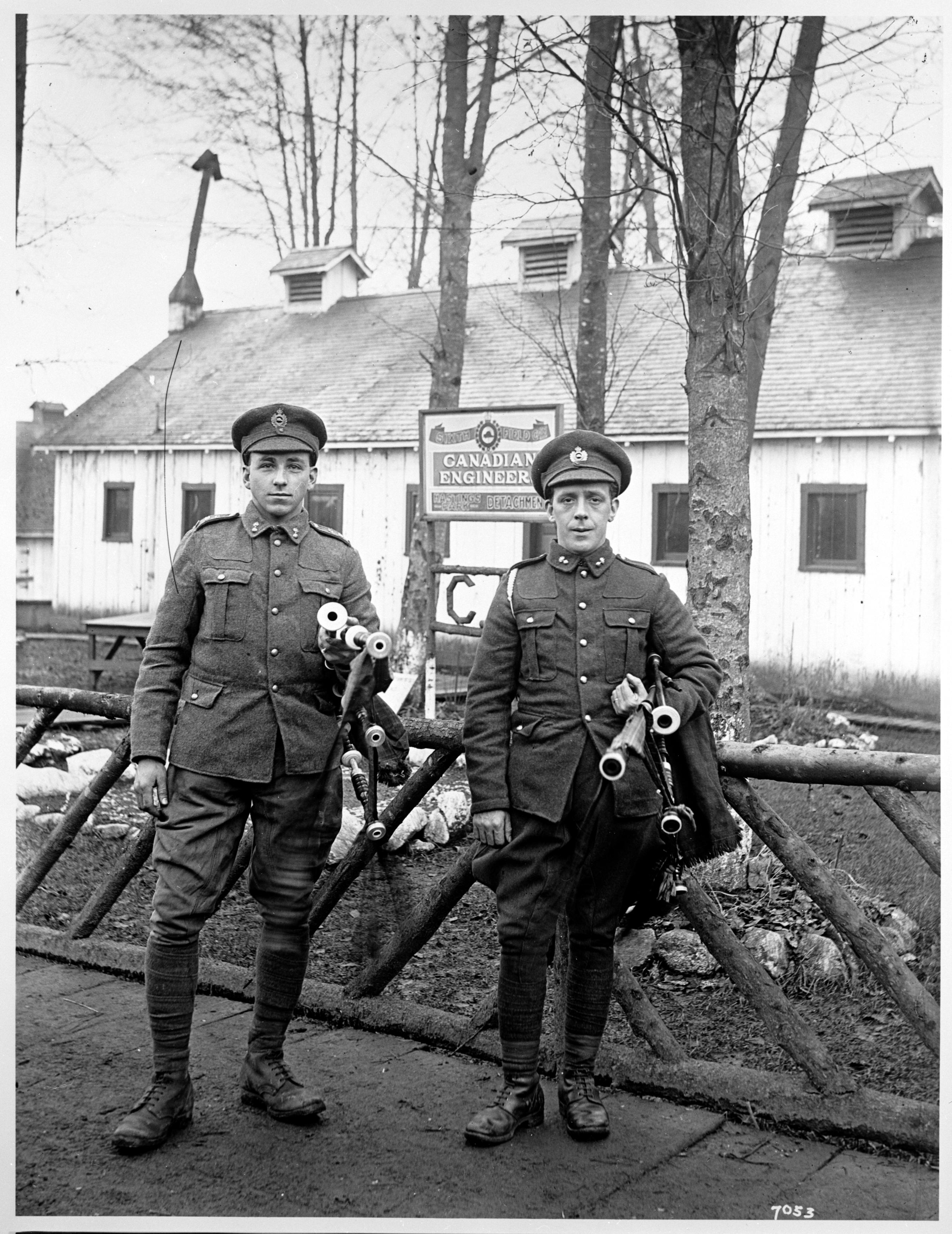 Two military men with bagpipes in front of the 6th Field Co., Canadian Engineers Building at Hastings Park VPL 8768 Date: 1915 Photographer/Studio: Thomson, Stuart Topic: Military uniforms, Tents Organization: Canada. Canadian Armed Forces. Corps of Royal Canadian Engineers, 6th Field Company Location: British Columbia - Vancouver - Hastings-Sunrise - Hastings Community Park More information on our historical photograph collection